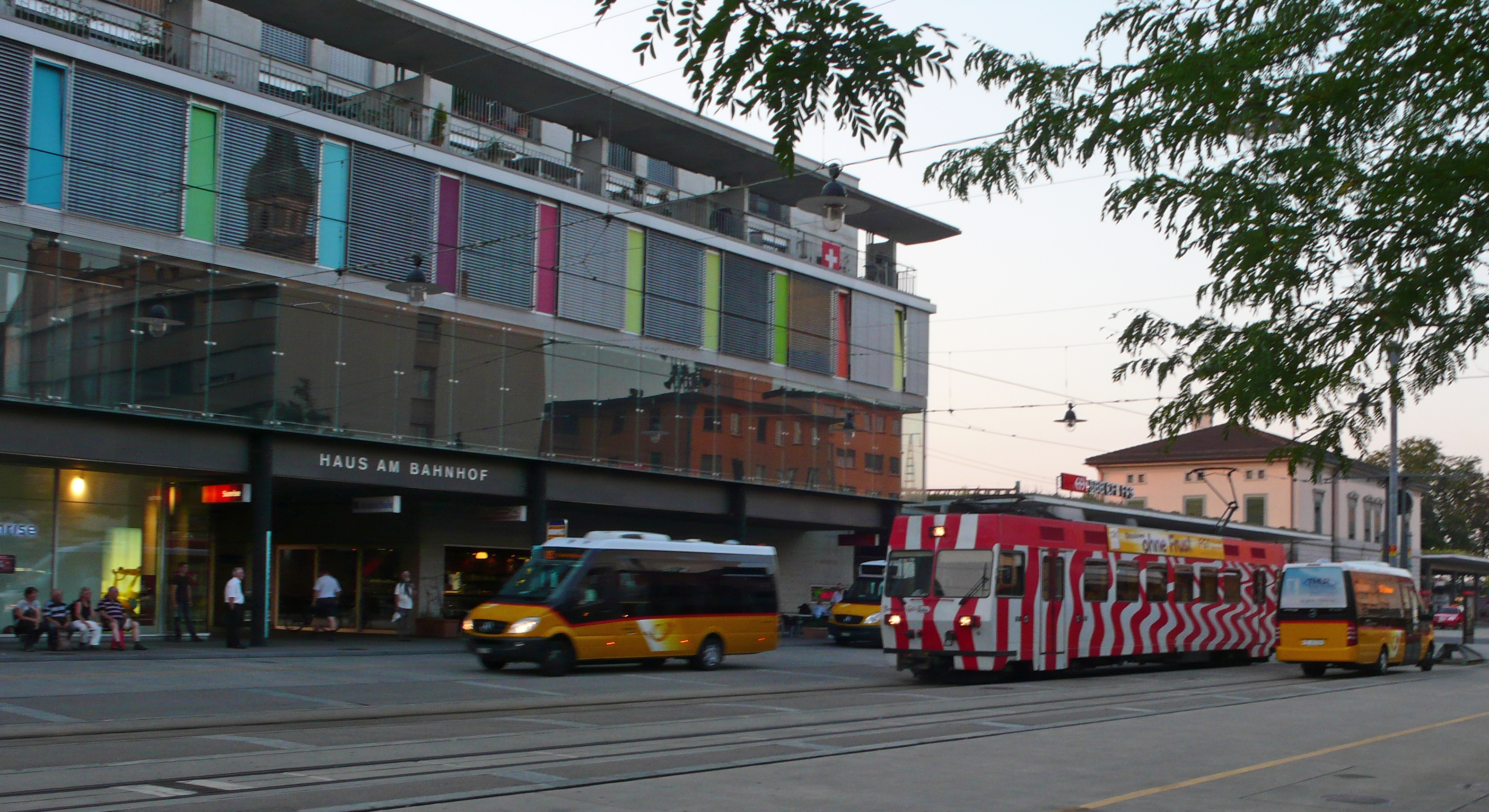 At the tran station of Frauenfeld, Switzerland. Blurry picture of FW Be 4/4 16, identified with the yellow ad at the roof.